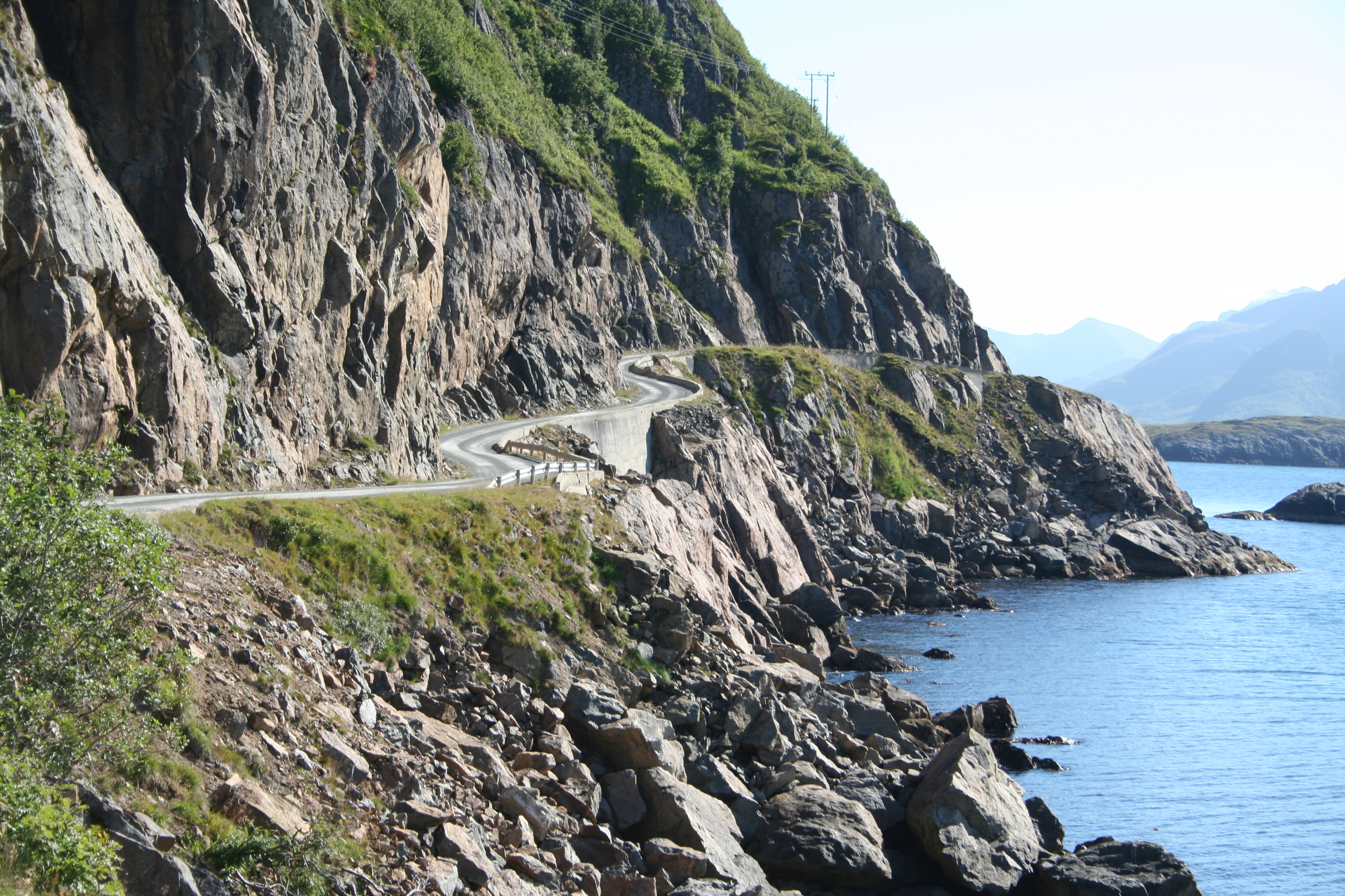 The road between Myre and Nyksund, Norway, seen southwards, towards Myre.